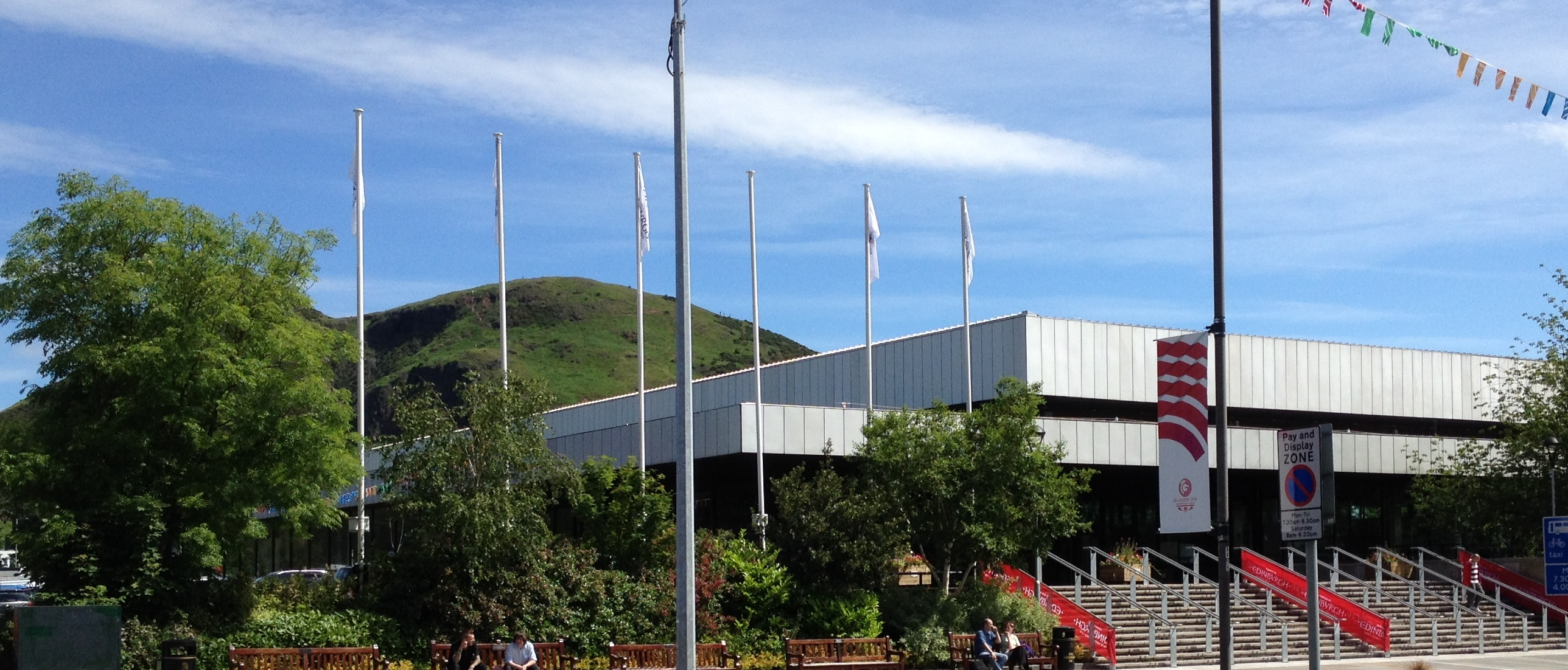 View of West end of Royal Commonwealth Pool, Edinburgh